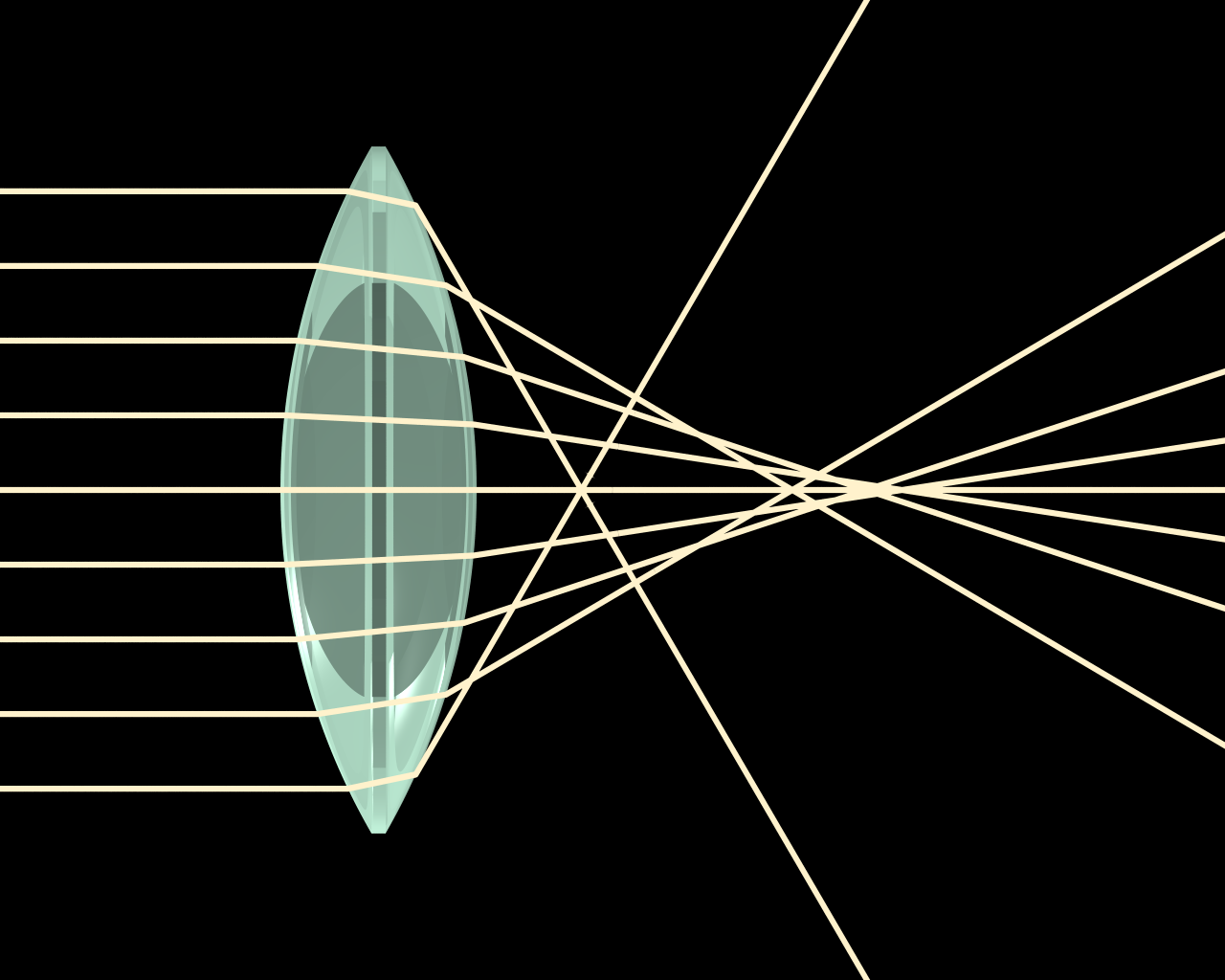 This image shows a "fat" lens with a short focal length "trying" to focus some light beams coming in from the left. Because of what is known as spherical aberration, the beams don't meet up in a single point.